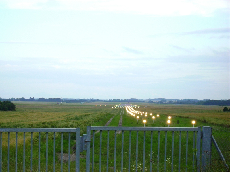 Runway 03/21 at Roskilde Airport, seen from the north. Airport buildings are right of the picture.